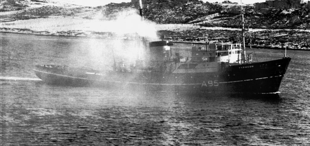 RMAS Typhoon in Port Stanley. DM Gerrard.